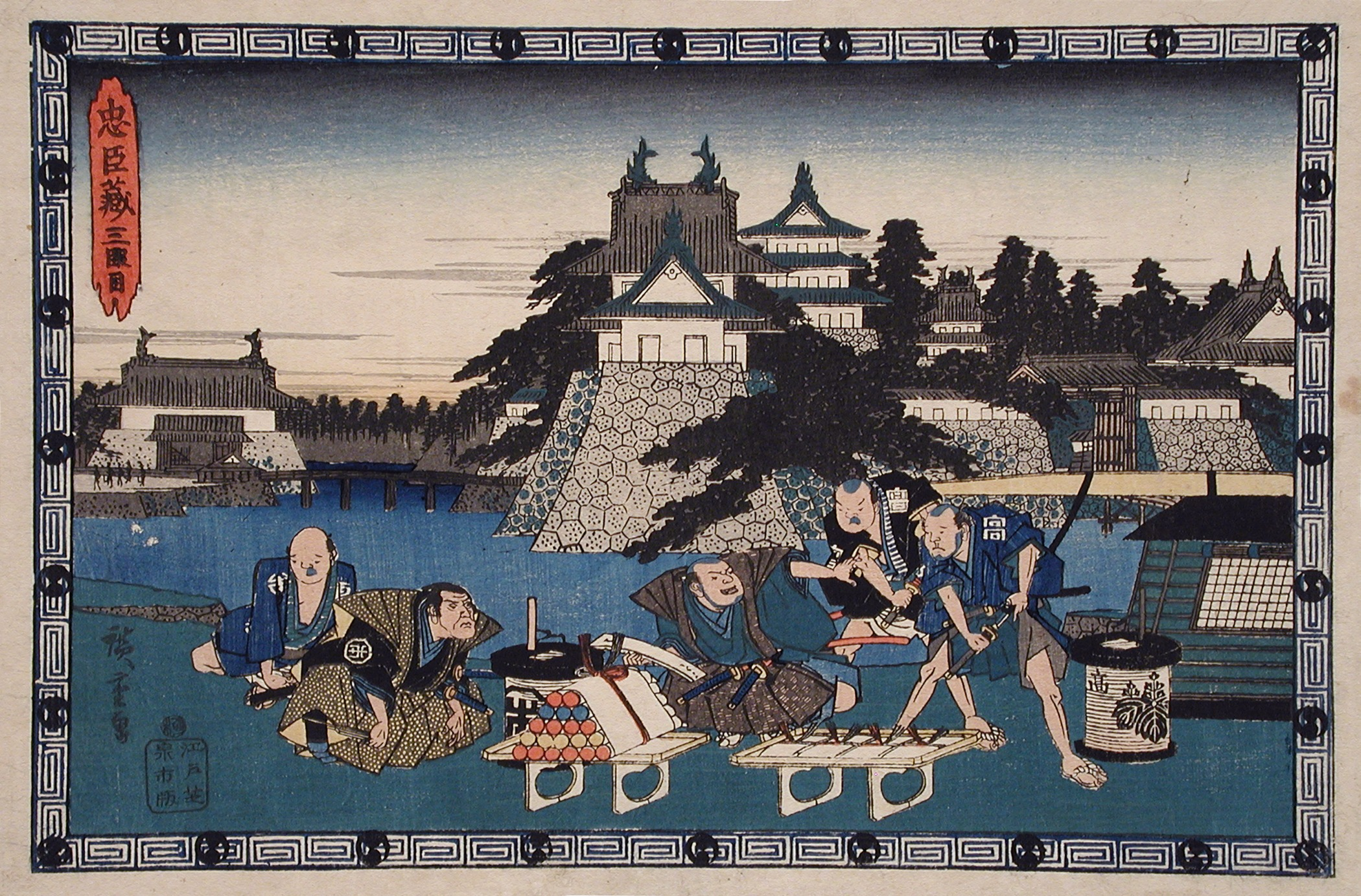 Japan, circa 1835-1839 Series: The Storehouse of Loyal Retainers Prints; woodcuts Color woodblock print Image: 9 1/8 x 14 in. (23.2 x 35.6 cm); Sheet: 9 15/16 x 14 13/16 in. (25.3 x 37.5 cm) Gift of Dr. Harvey Eagleson (M.66.35.48) Japanese Art